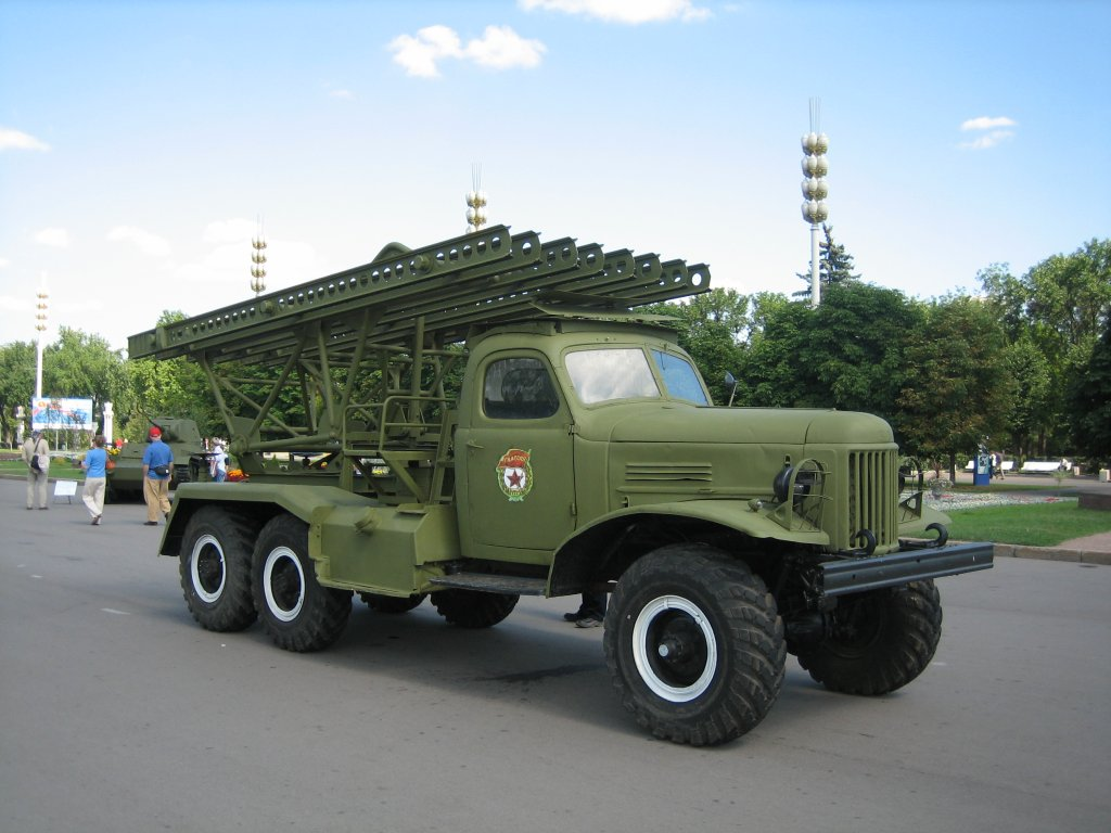 BM-13-16 on a ZiL-157 chassis.